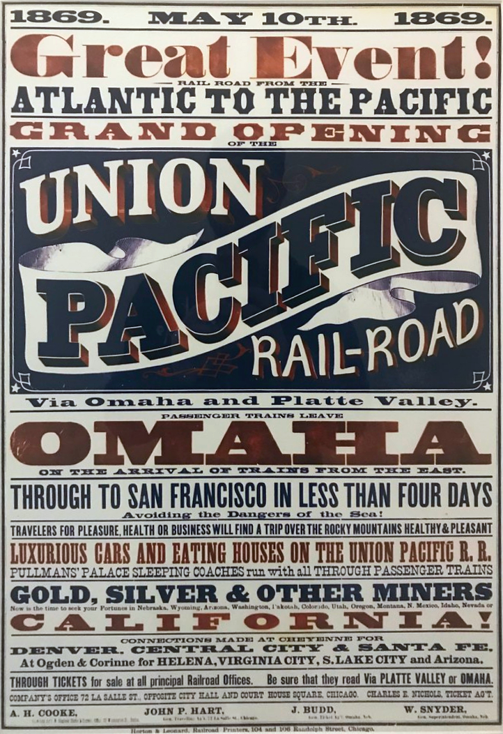 Poster for the Union Pacific Railroad opening-day.